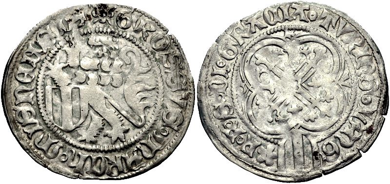 GERMANY, Sachsen-Markgrafschaft Meißen. Friedrich II der Sanftmüthige (the Kind), with Friedrich IV and Sigismund. As Margrave of Meißen and Landgrave of Thüringen, 1428-1464. AR Schildgroschen (28mm, 2.68 g, 3h). (rosette) F • F • S • DI • GRΛCIΛ • TVRInG • L(An)G (annulet stops), voided cross fleurée within quadrilobe, with lis at each inner angle and C R V (shield) at each outer angle / (rosette) GROSSVS • mARCh • mISnЄNSIS (annulet stops), lion rampant left; shield to left. Saurma 4374. VF.